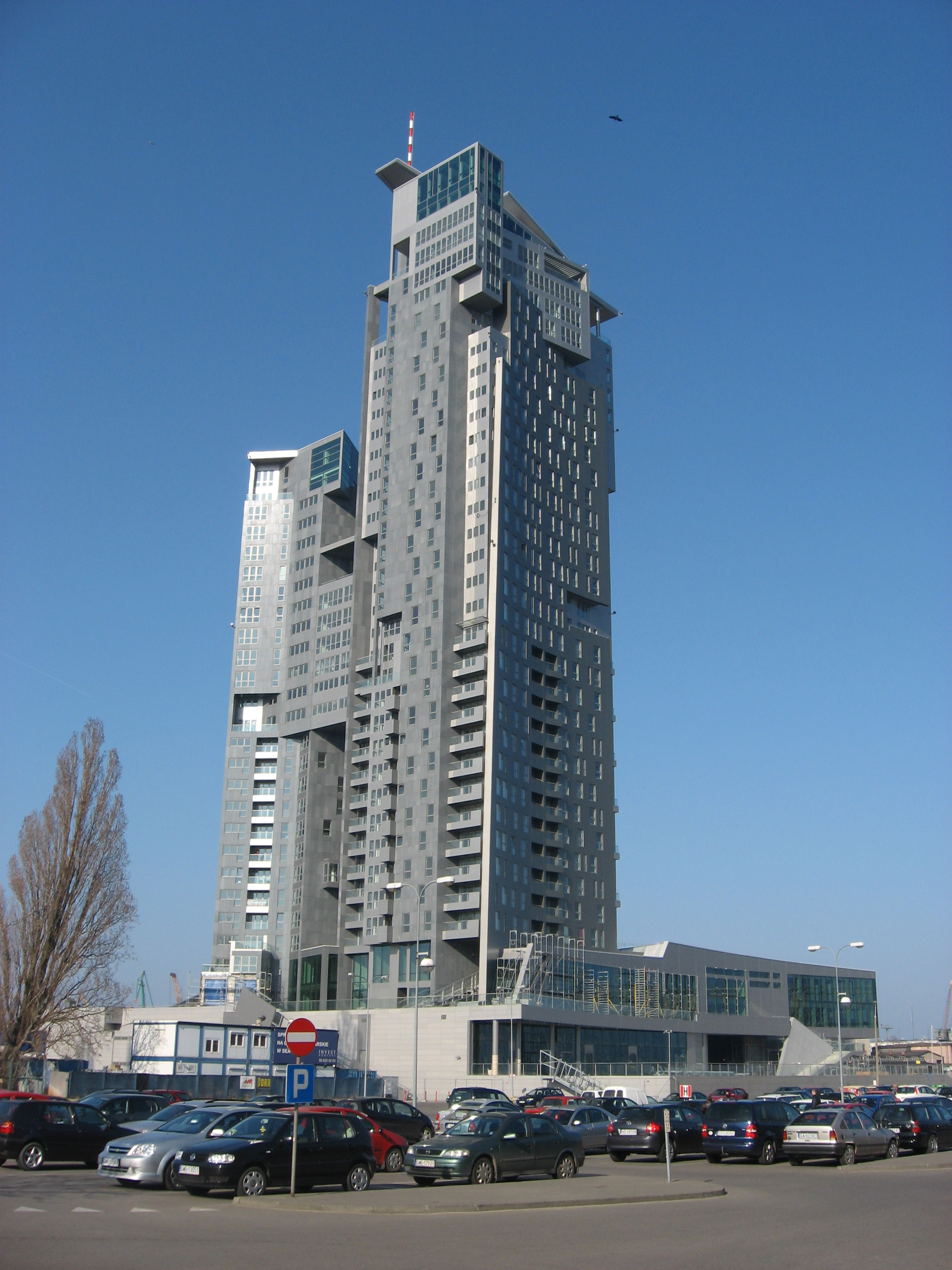 Sea Towers in Gdynia